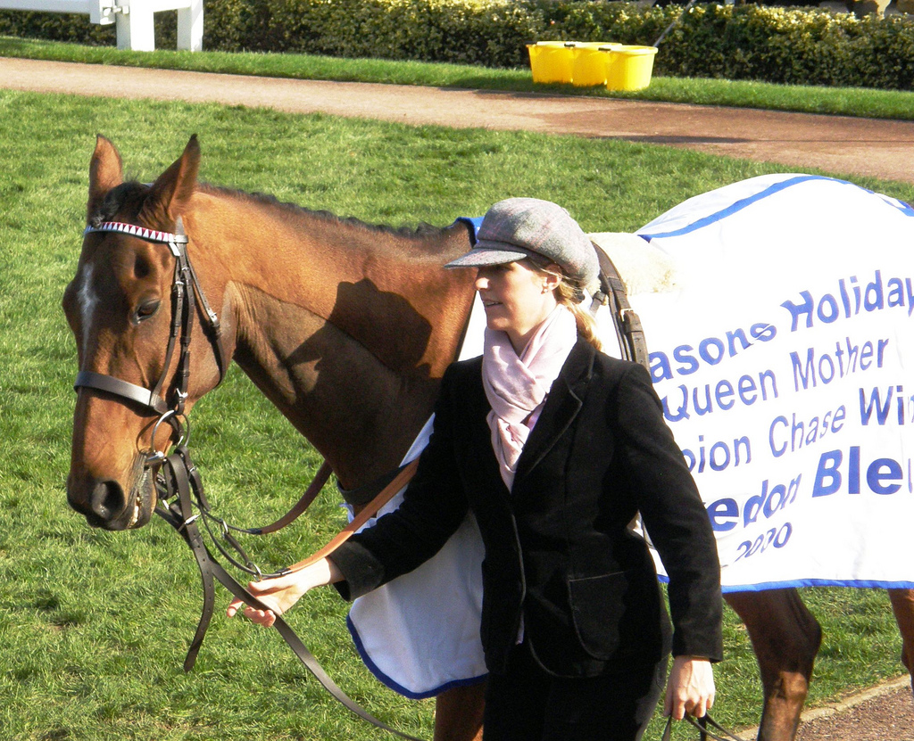 Edredon Bleu, Oct 07